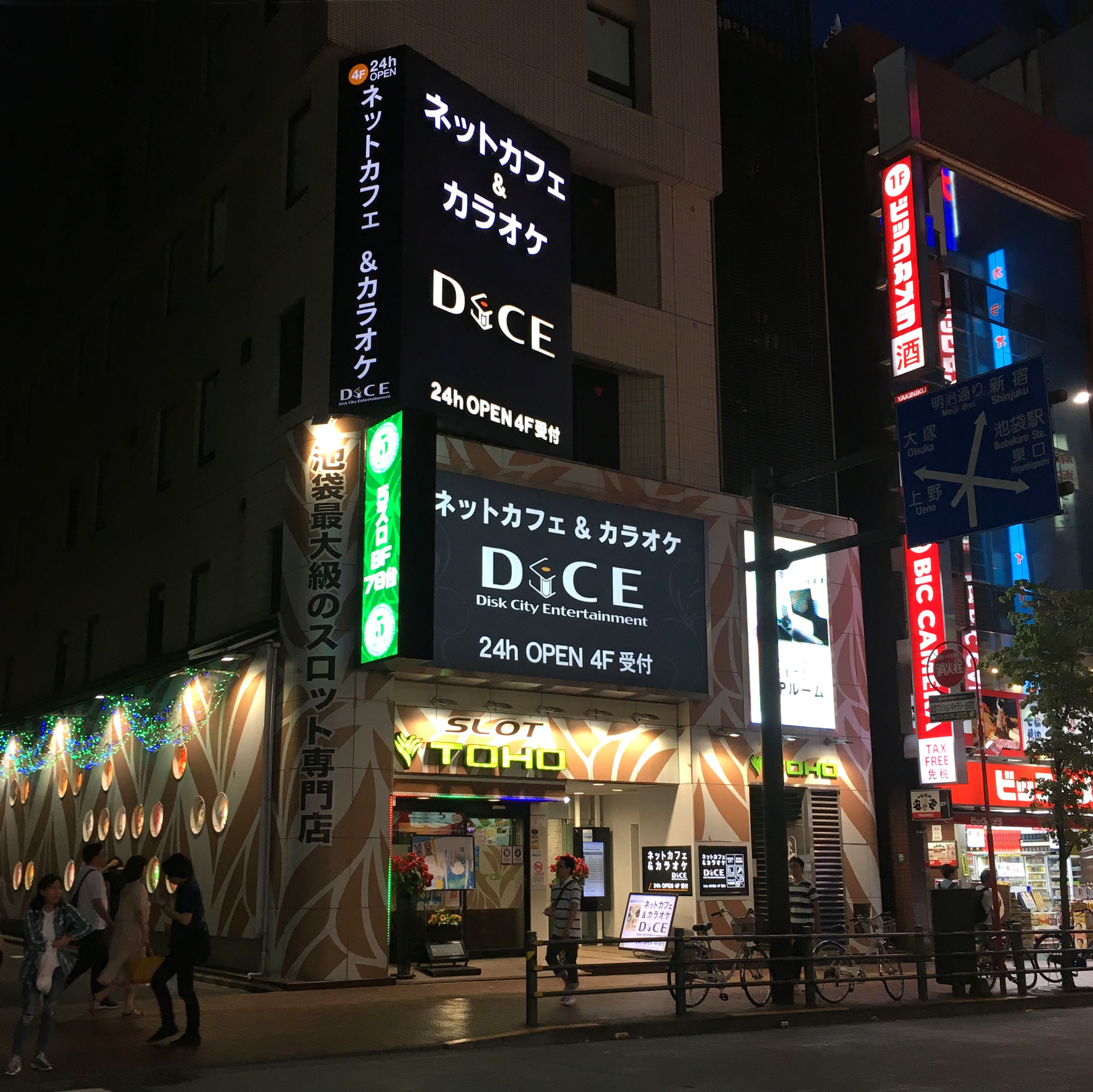 DiCE (Japanese internet café chain) Ikebukuro branch (Tokyo, Japan)